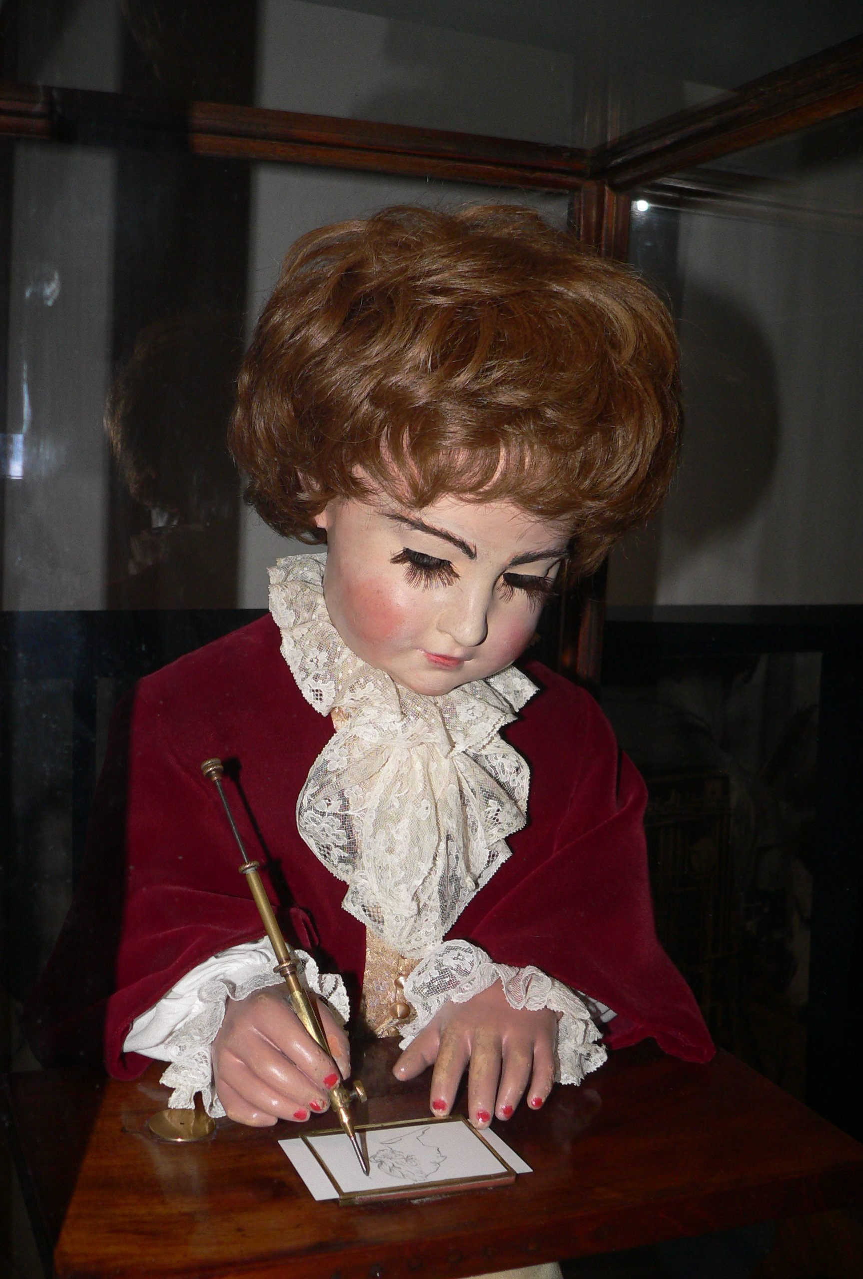 Jaquet-Droz automata, musée d'Art et d'Histoire de Neuchâtel